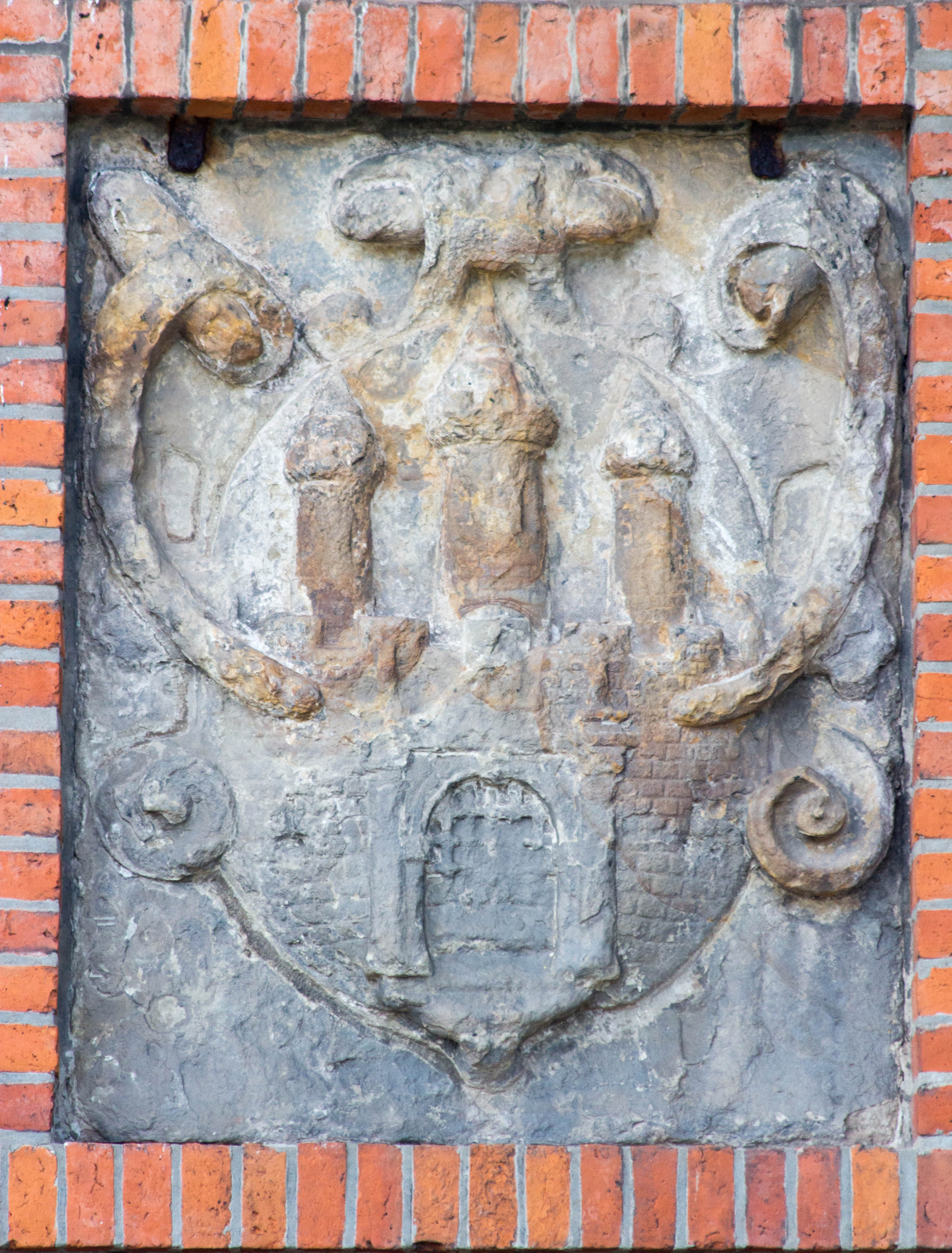 Coat of Arms of the City of Hamburg at the Neuwerk Lighthouse of 1310. It is located on the right of the entrance of the Great Tower Neuwerk.